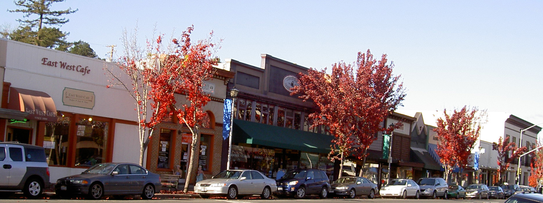 Photo of Main Street (State Route 116 westbound) in Sebastopol